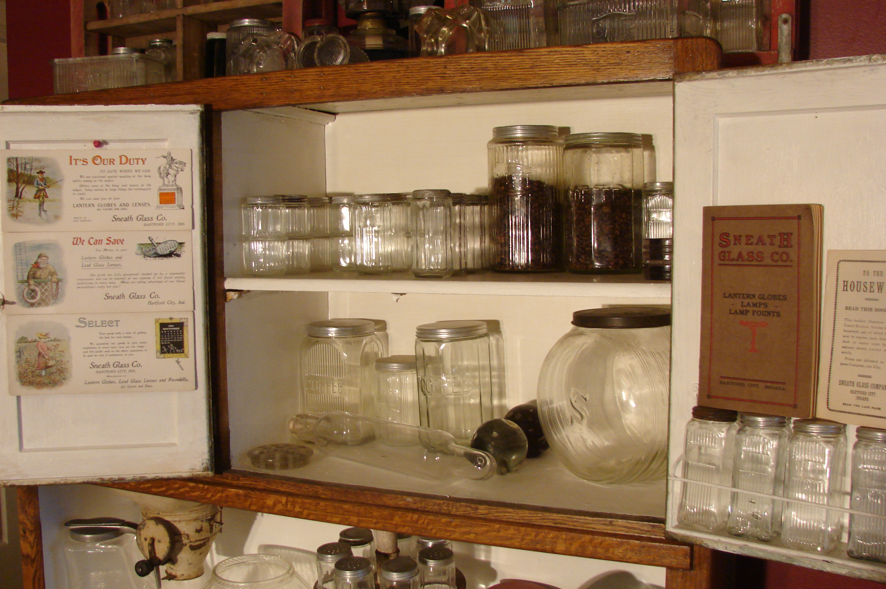 A collector’s Hoosier Cabinet filled with glassware made by Sneath Glass Company.